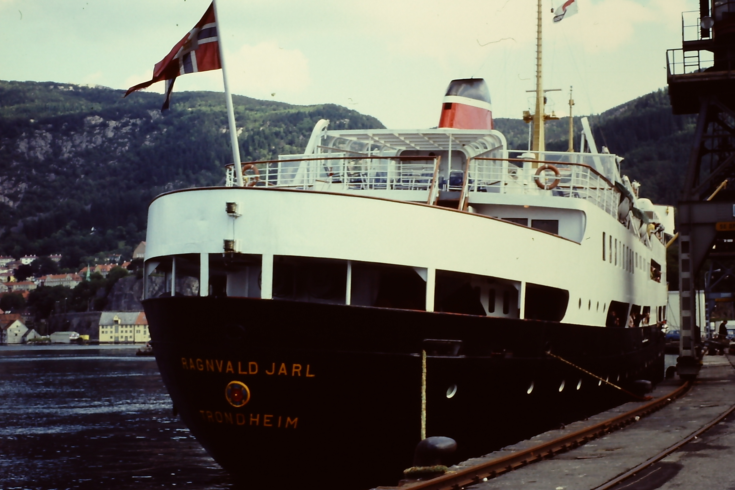 Hurtigruten ship "Ragnvald Jarl", 1981.